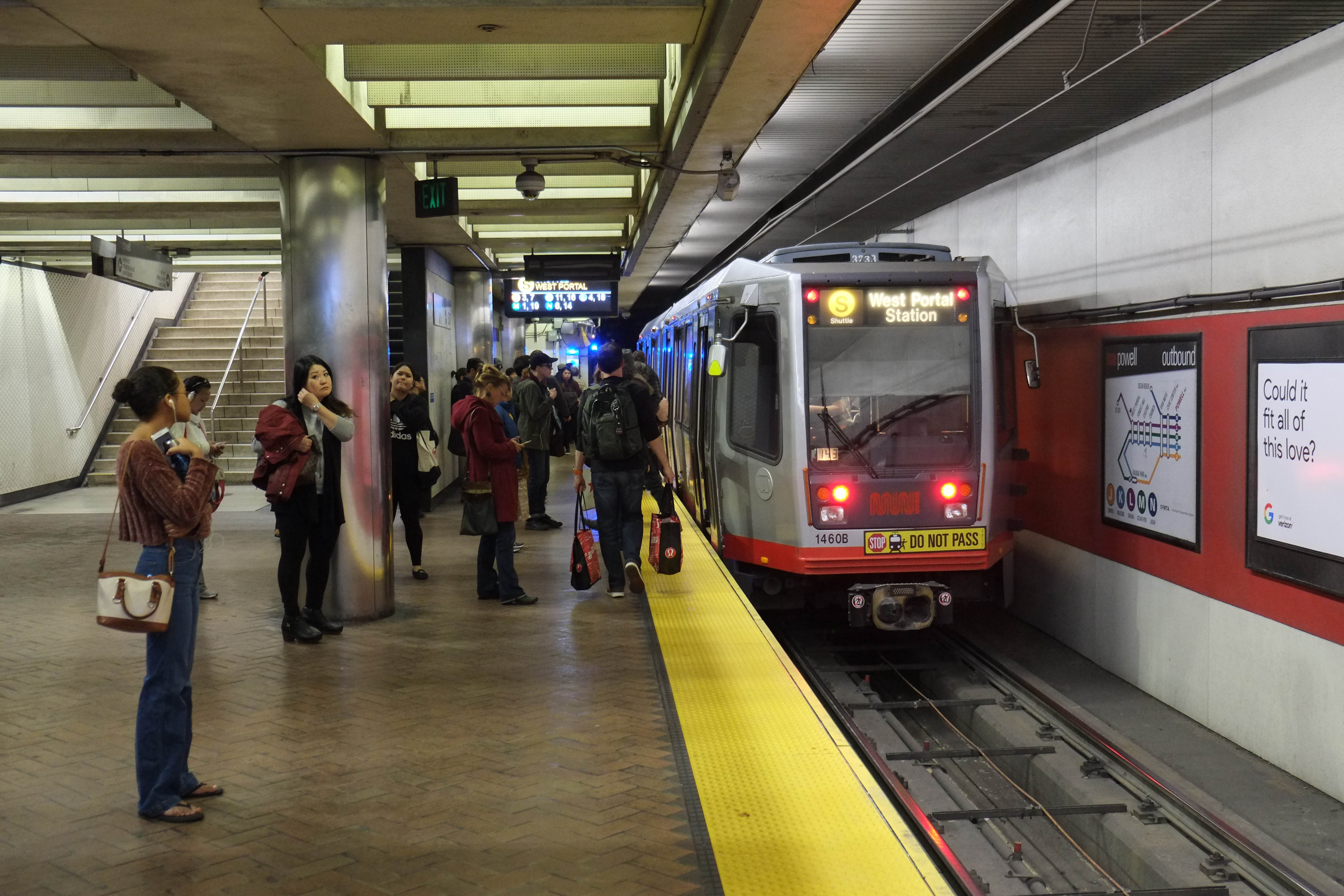 An outbound S Shuttle train at Powell station in December 2017